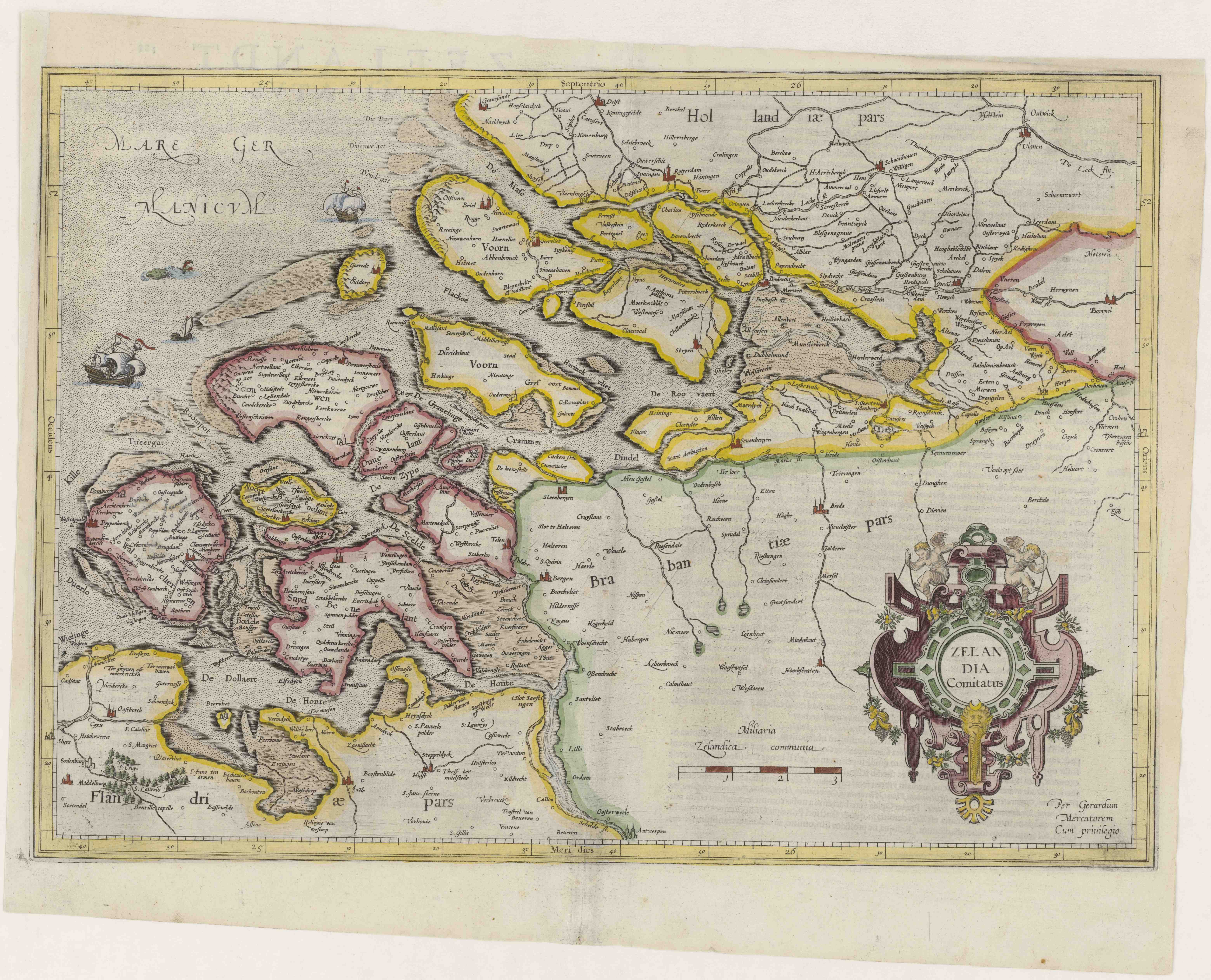 Map of the Dutch provence 'Zeeland' title: Zelandia Comitatus; size: 34 x 48 cm